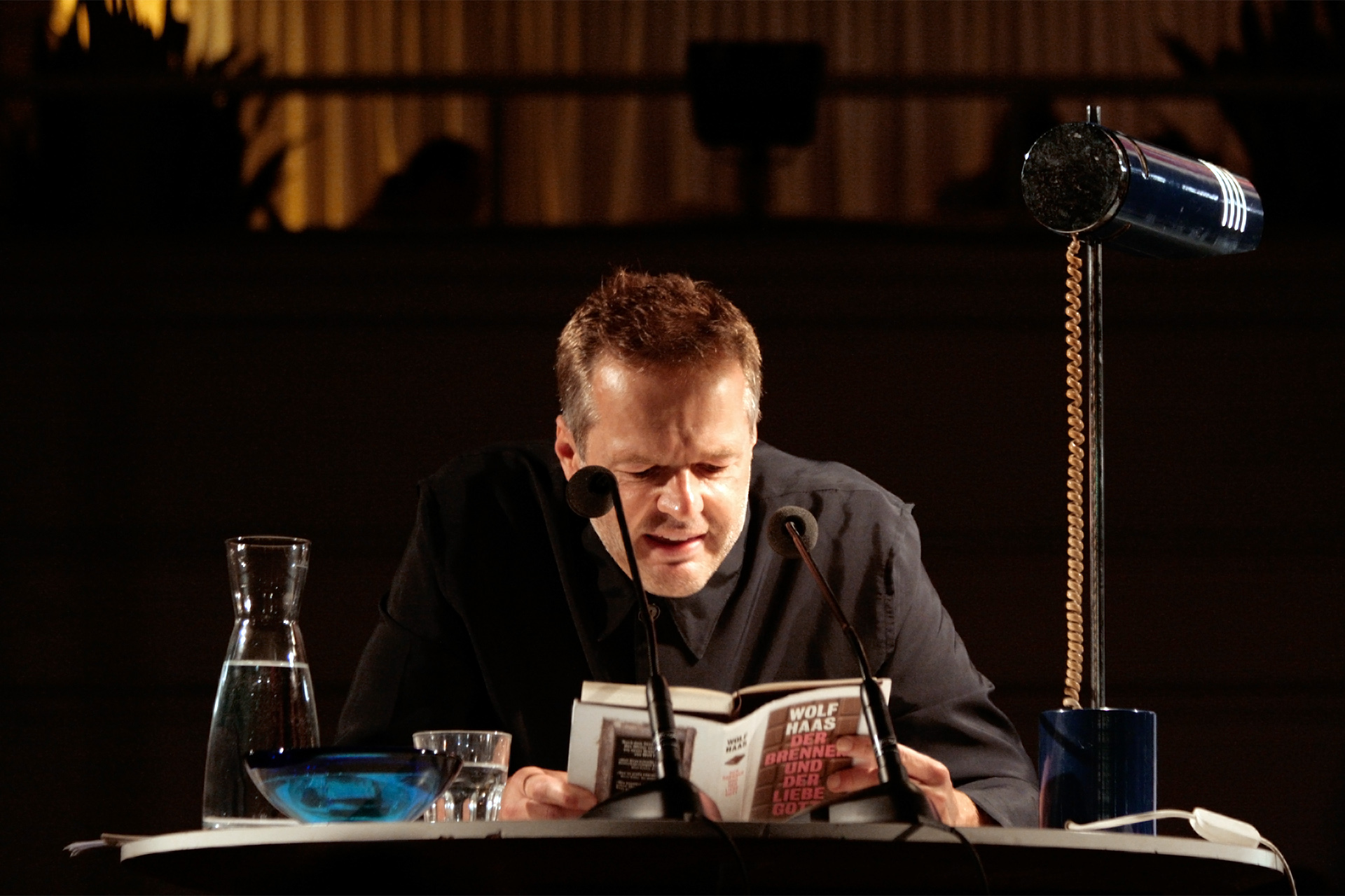 Austrian writer Wolf Haas reading at the literary festival o-töne (MuseumsQuartier, Vienna, Austria